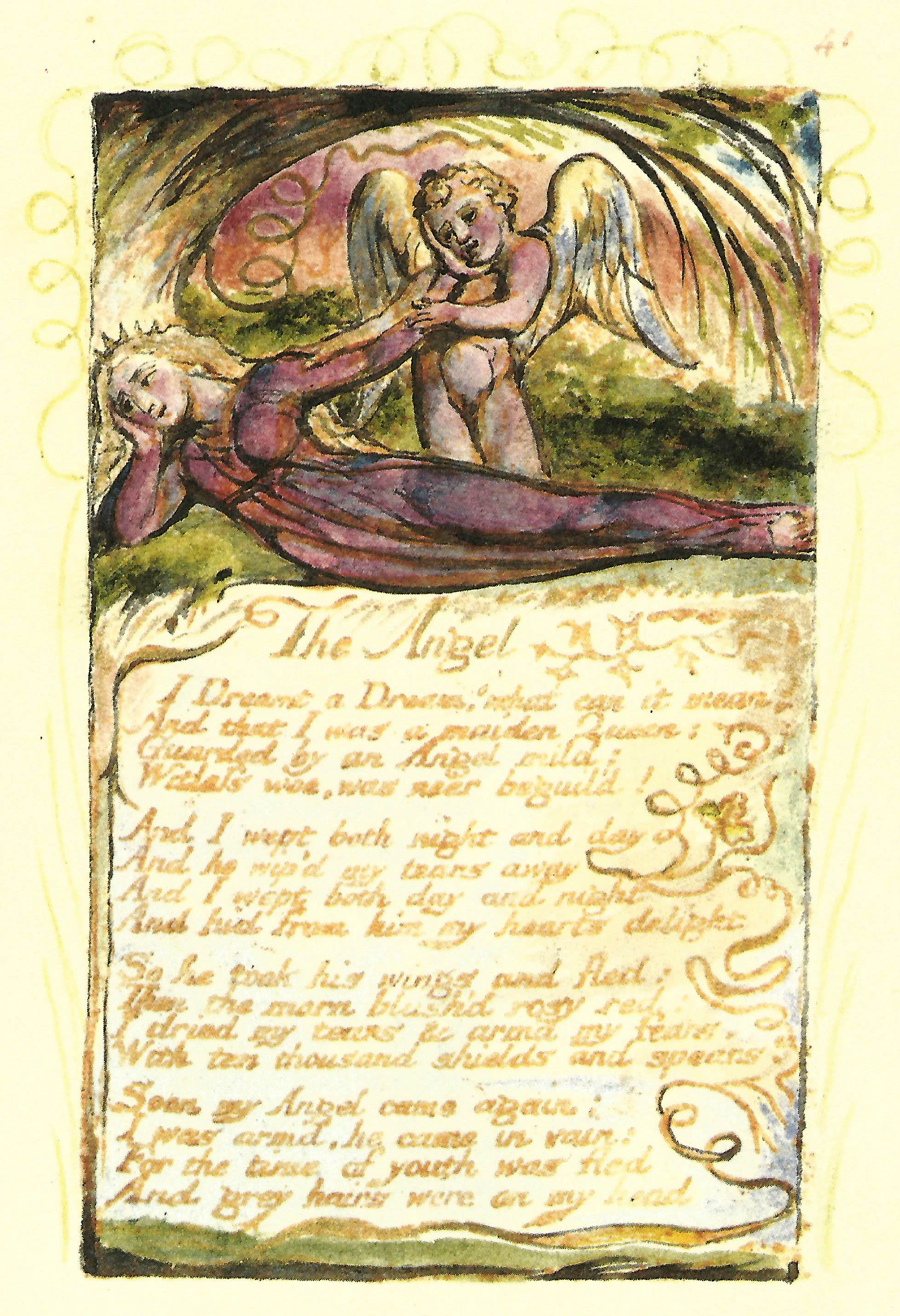 William Blake - The Angel - Copy W - 1825 - Kings College Cambridge